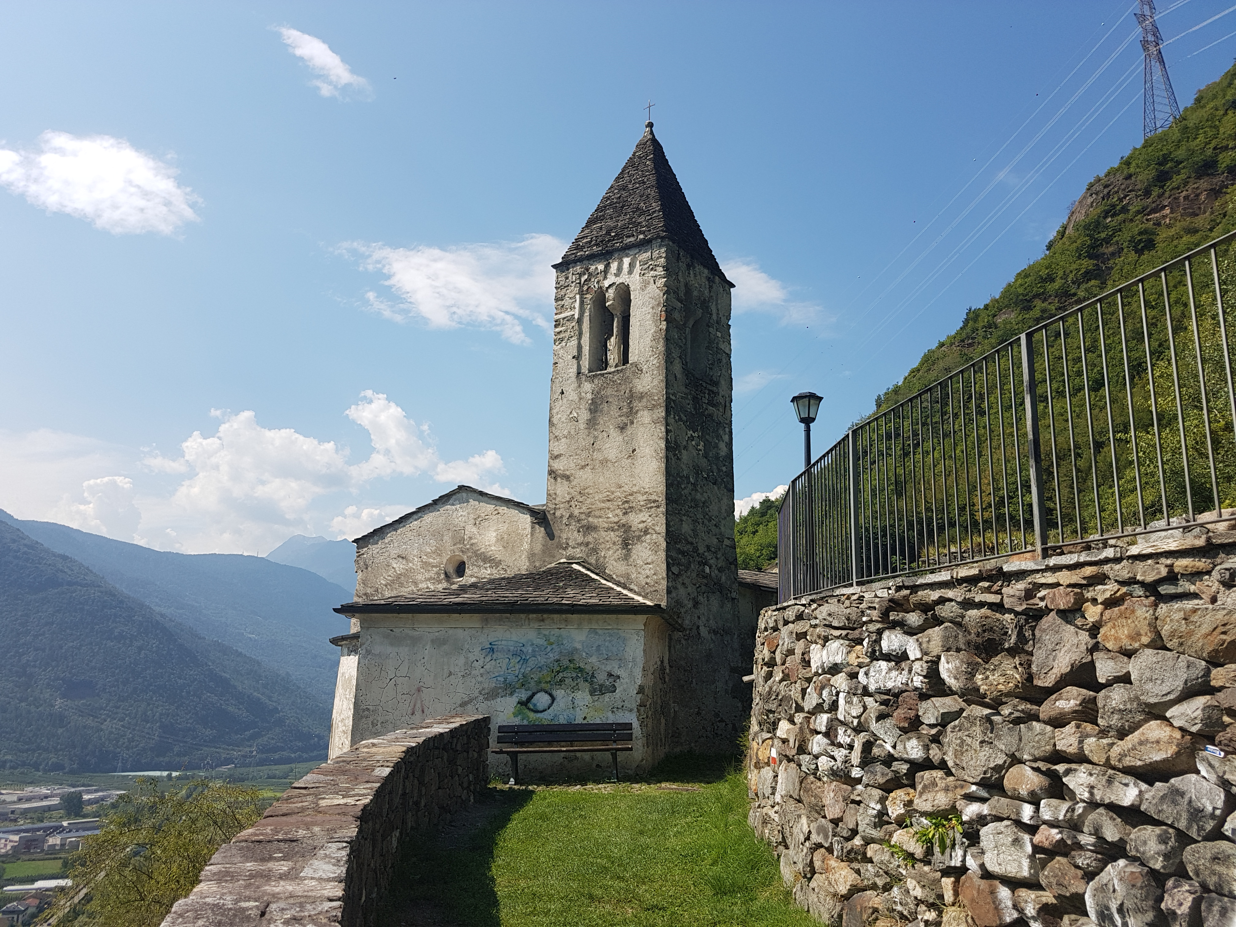 Santa Perpetua in Tirano, Italy, also: Chiesa di Santa Perpetua , after the function also: Xenodochio di Santa Perpetua . Former church and hostel for travelers above Tirano.